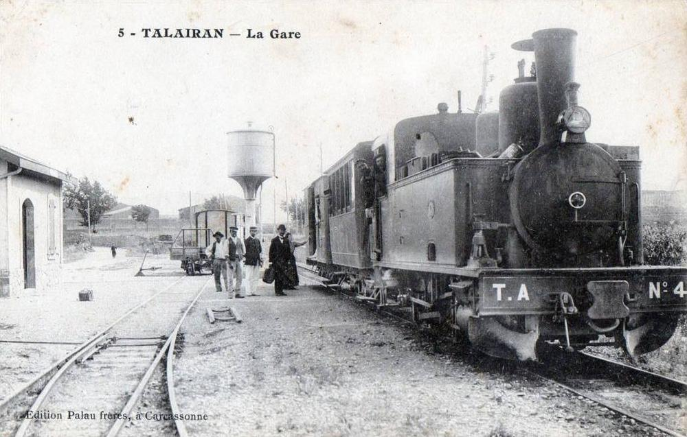 Metre gauge T.A. no. 4 at the station